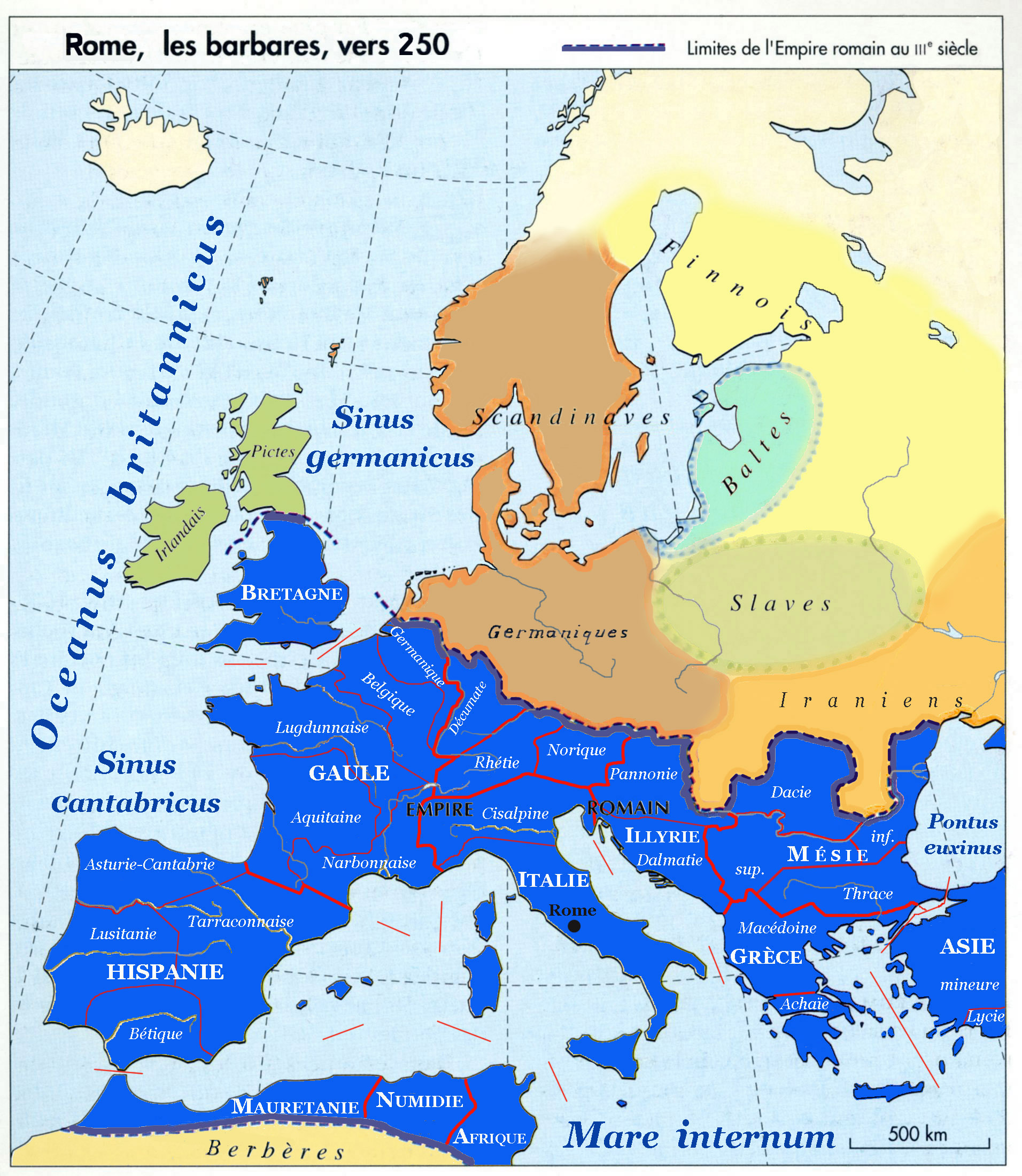 Historical map of Europe, french language, year 250